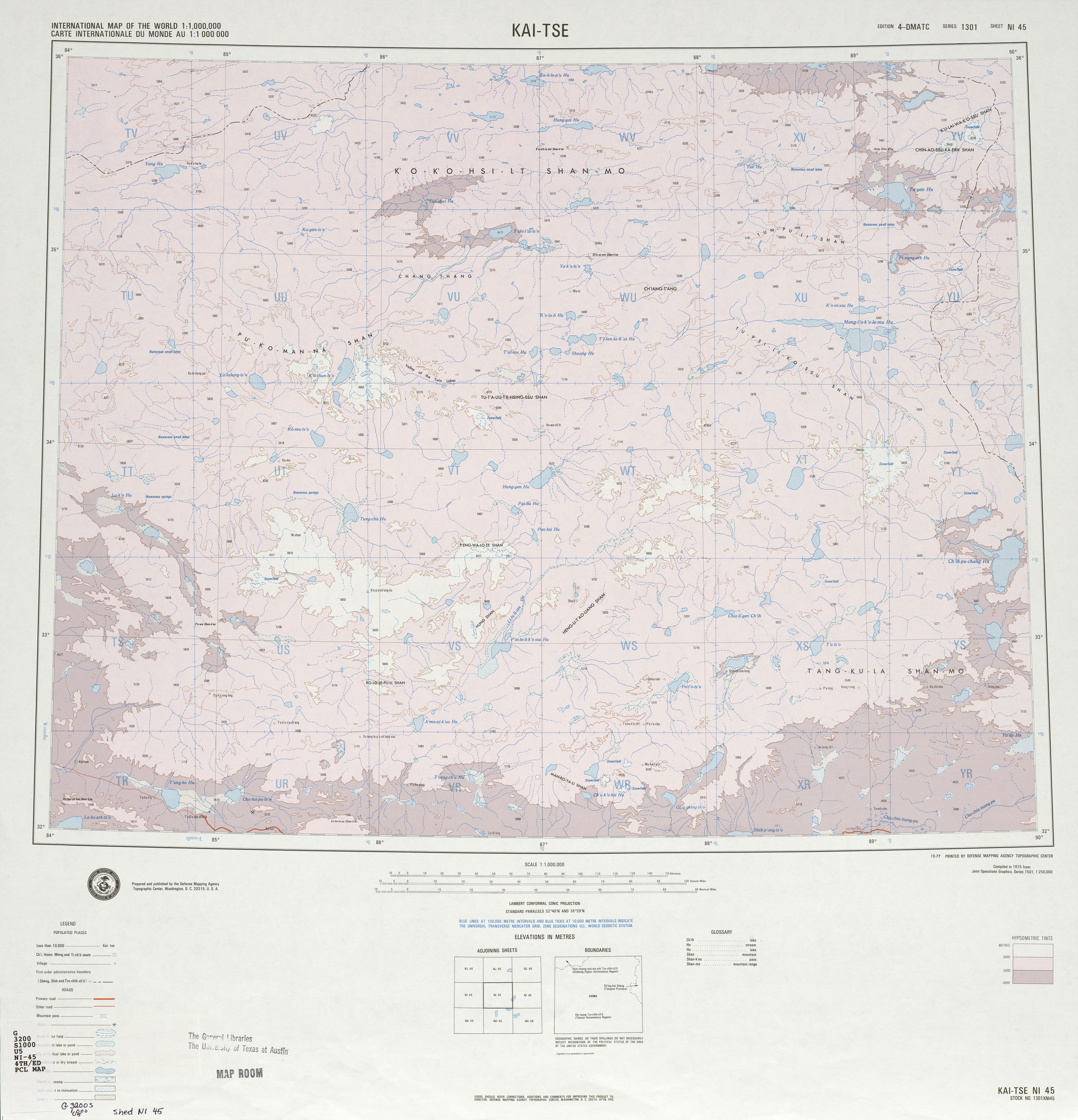 Map from the International Map of the World 1:1,000,000